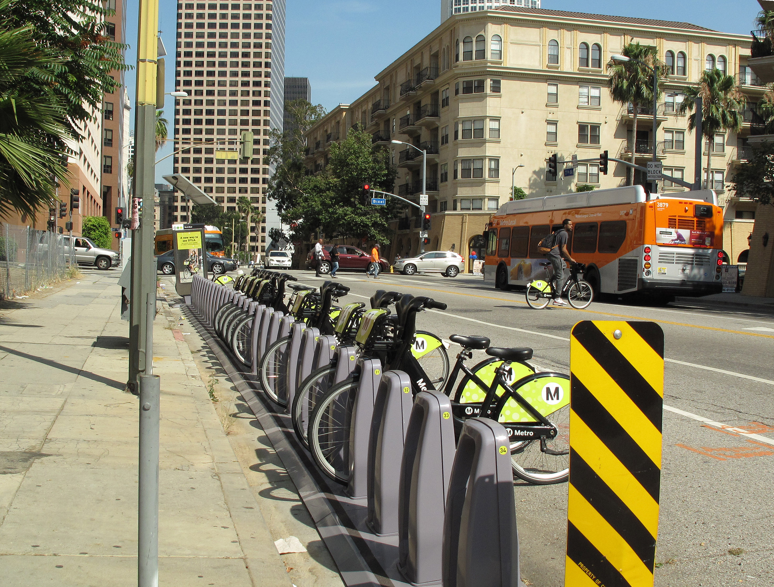 LA Metro Bike Share station on 7th Street just west of Bixel, Los Angeles.